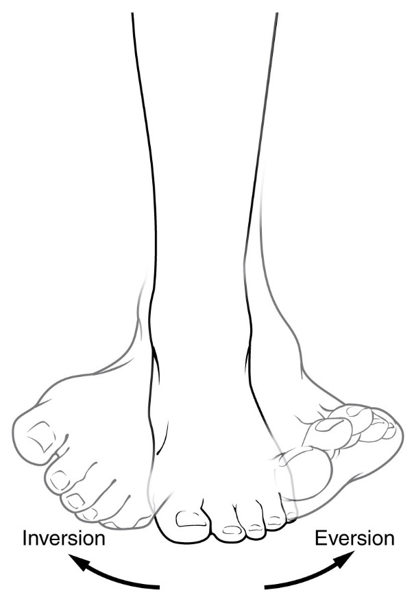 Eversion and inversion. Also refered to as pronation and supination.